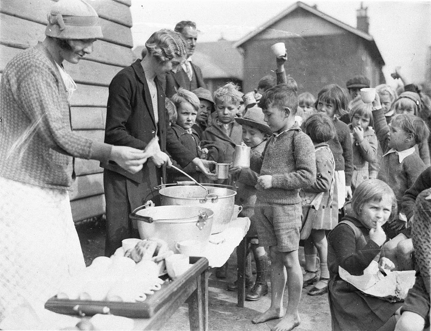 Format: Glass negative Notes: Find more detailed information about this photograph: .au/item/itemDetailPaged.aspx?itemID=52307 Search for more great images in the State Library's collections: .au/search/SimpleSearch.aspx From the collection of the State Library of New South Wales